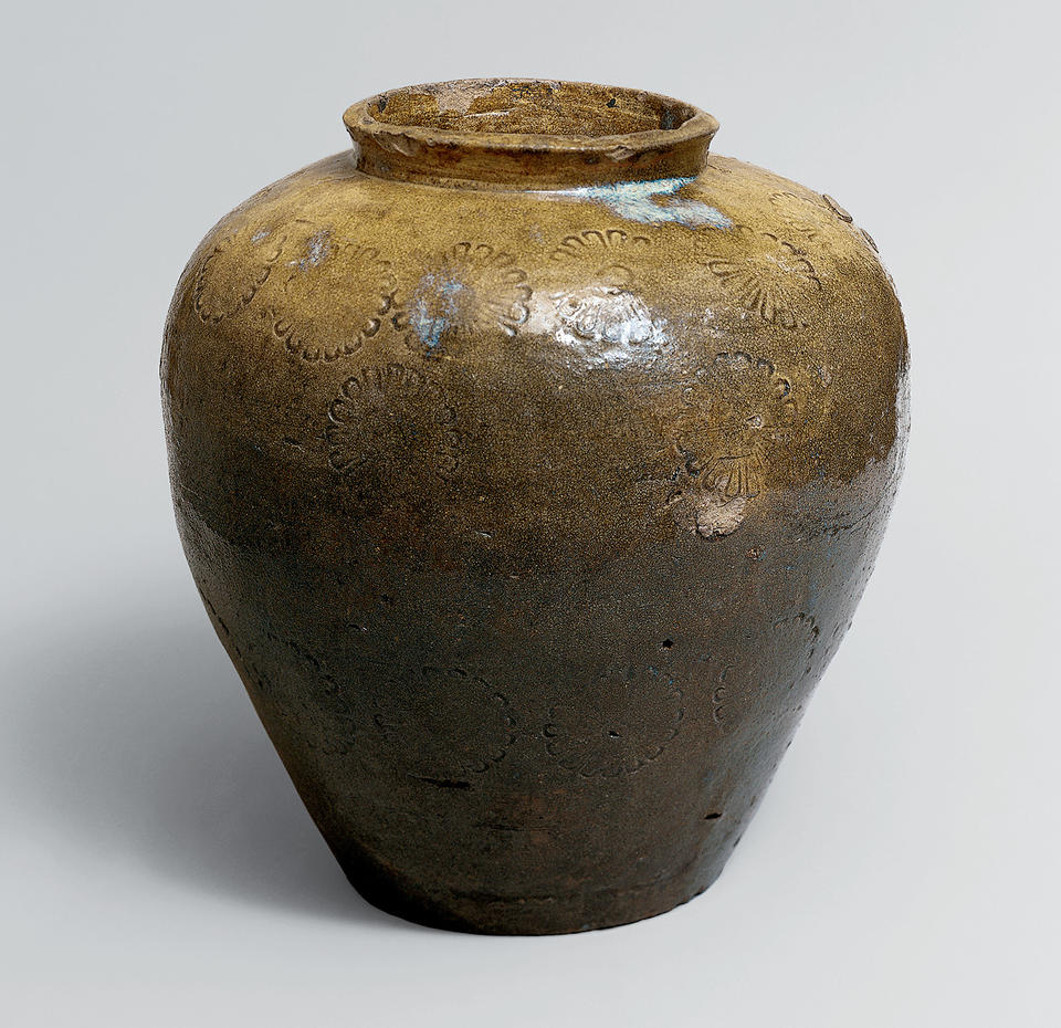 Japan; Jar; Ceramics